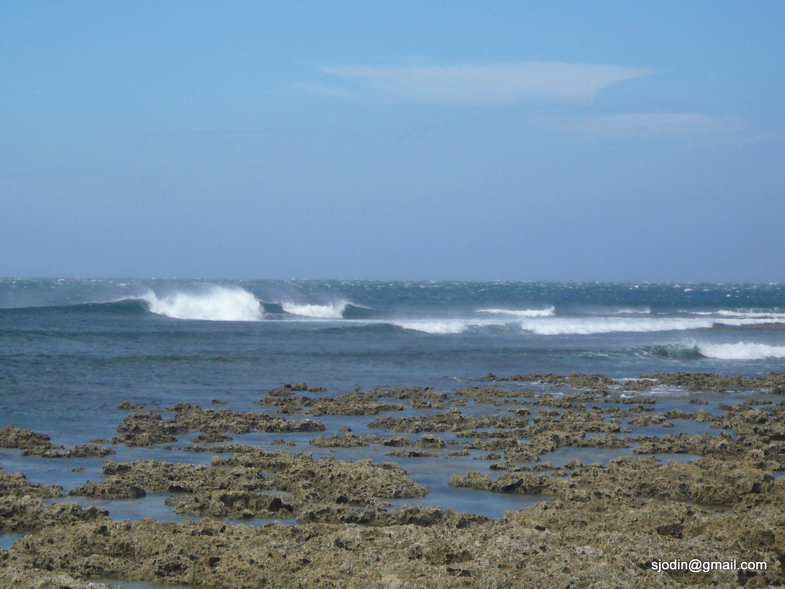 Sharp rocks break the South China sea